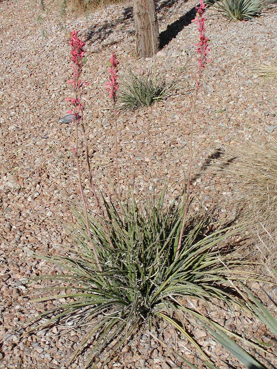 Photo of Hesperaloe parviflora in Las Vegas